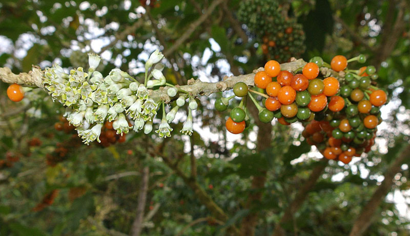 A widespread species in the Neotropics. Photo from Wildsumaco Reserve in Ecuador, where it is called Gallinero.